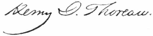 Signature of author Henry David Thoreau